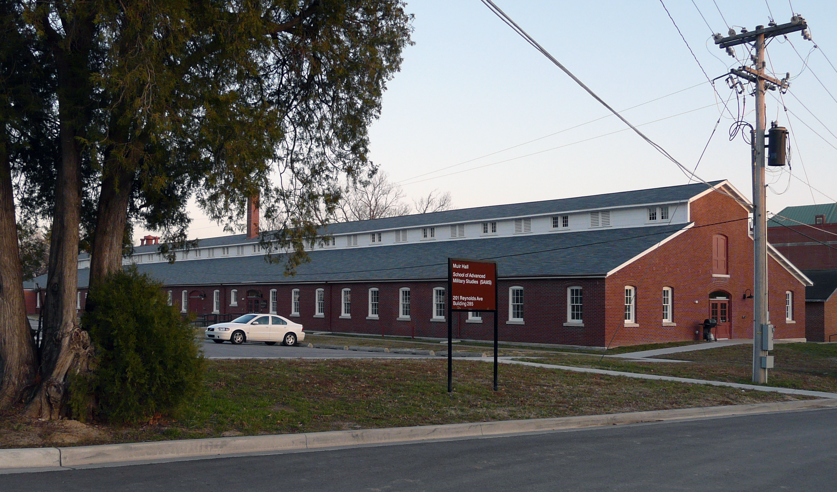 Photo of Muir Hall.